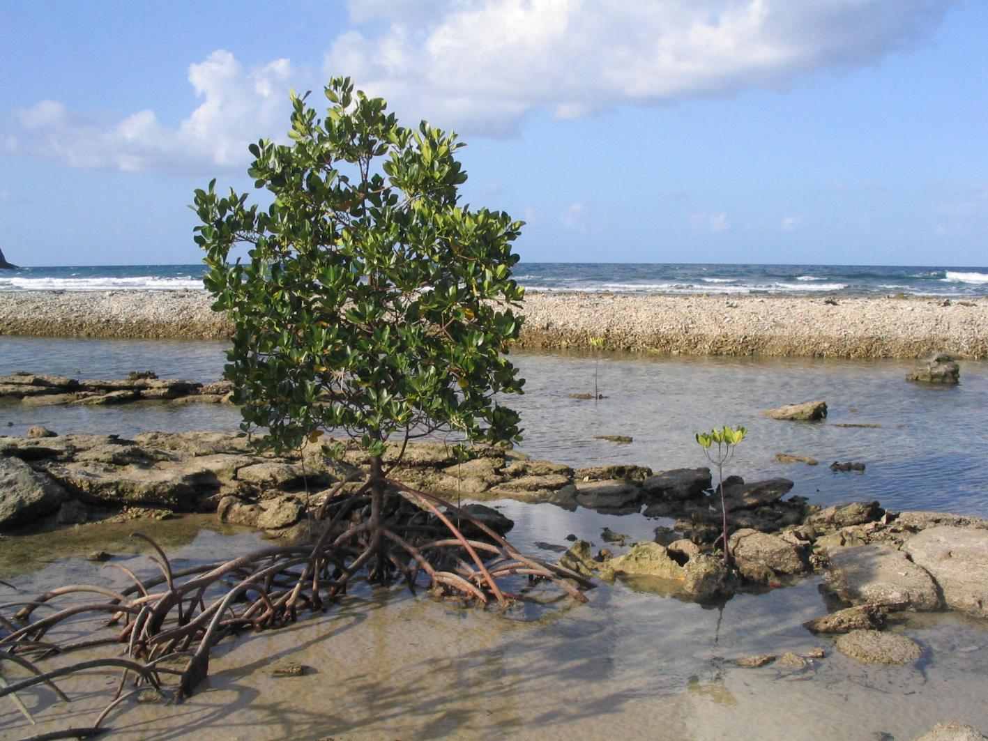 Mangrove (Rhizophora sp.) in Queensland. Photographed by Muriel Gottrop in September 2005.